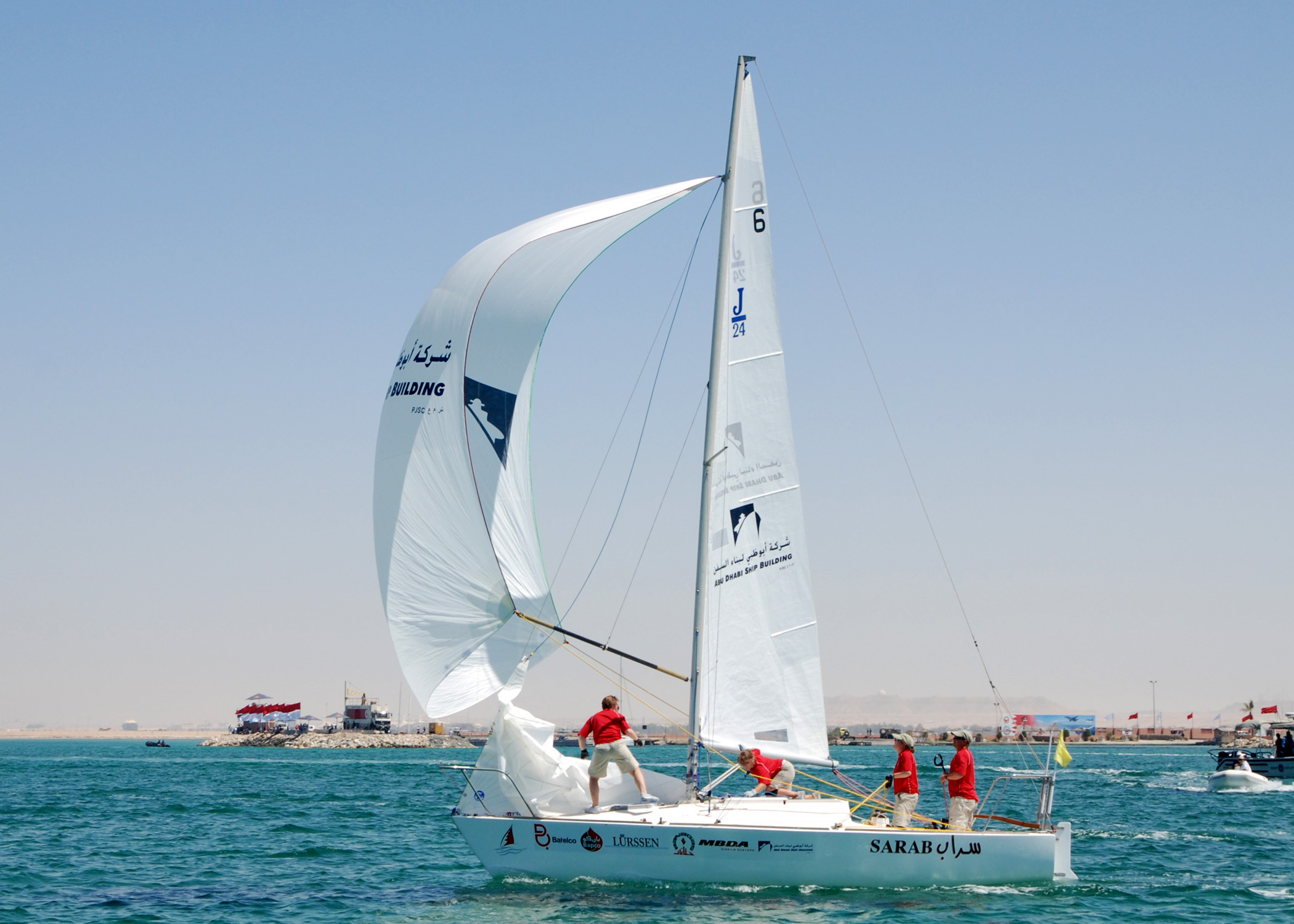 ZALLAQ, Bahrain (MARCH 18, 2010) The U.S. Armed Forces Sailing Team, made up of Navy and Coast Guard Sailors, compete in the 44th World Military Sailing Championship. The American team, part of the Department of Defense Armed Forces Sports Program, competed against teams from 25 countries. (U.S. Navy photo by Mass Communication Specialist 1st Class Eric Brown/Released)